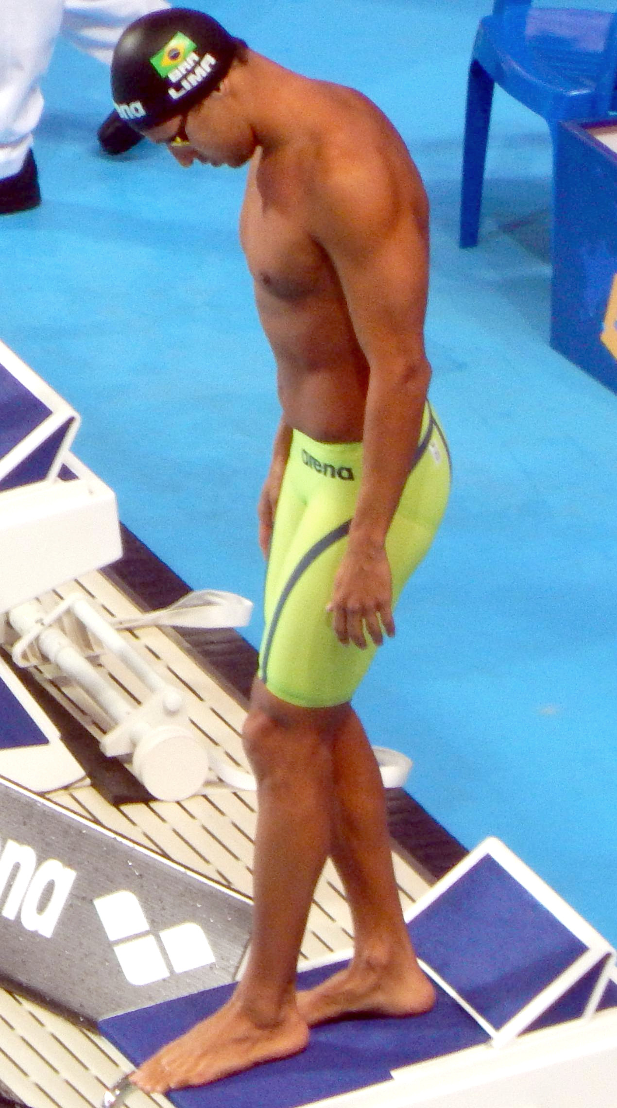 Filipe Lima before his semi at 50m breast in Kazan